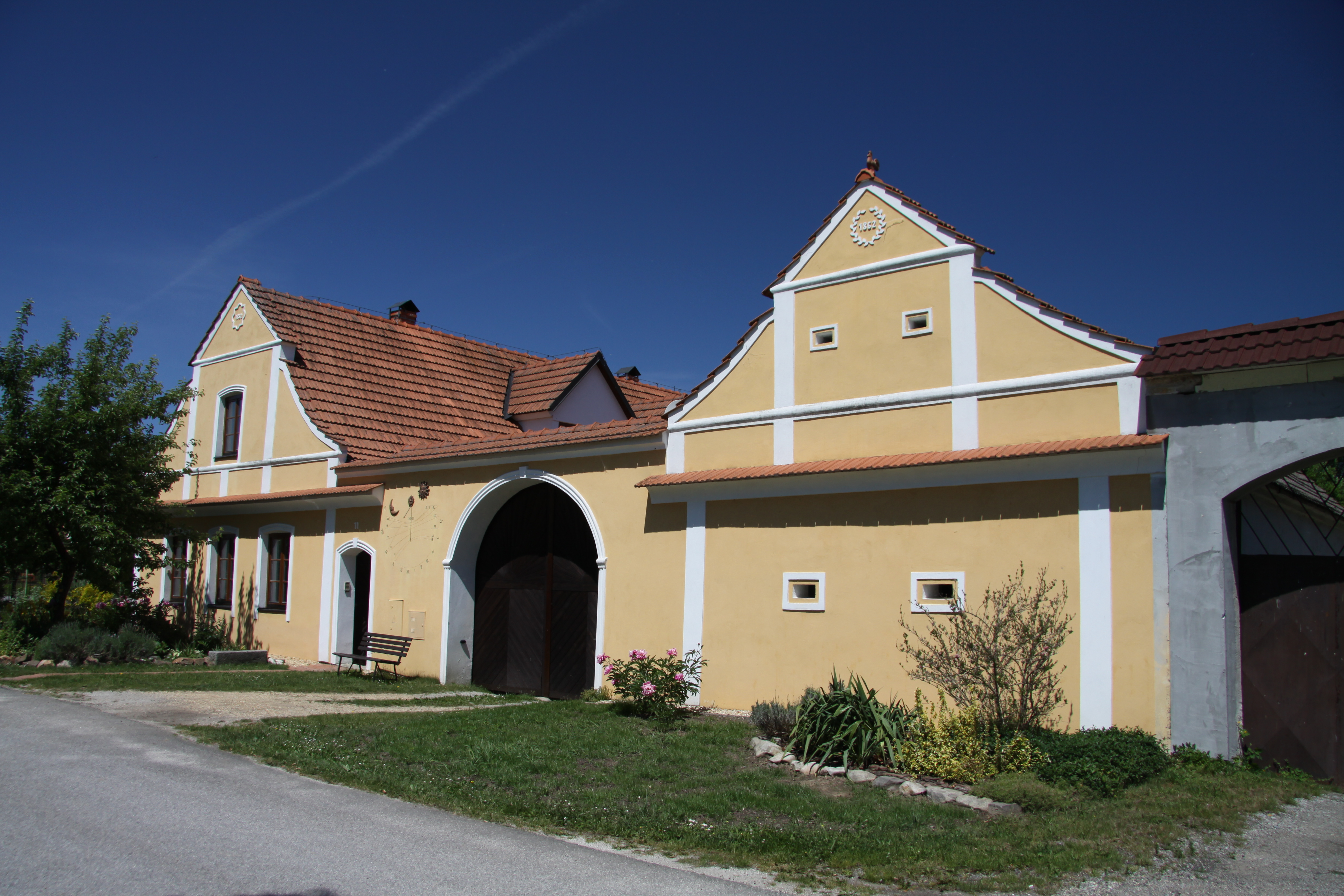 Dynín village in České Budějovice District, Czech Republic